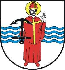 coat of arms of the Amt Büsum-Wesselburen and before from the former Amt Kirchspielslandgemeinde Büsum in Schleswig-Holstein, Germany.